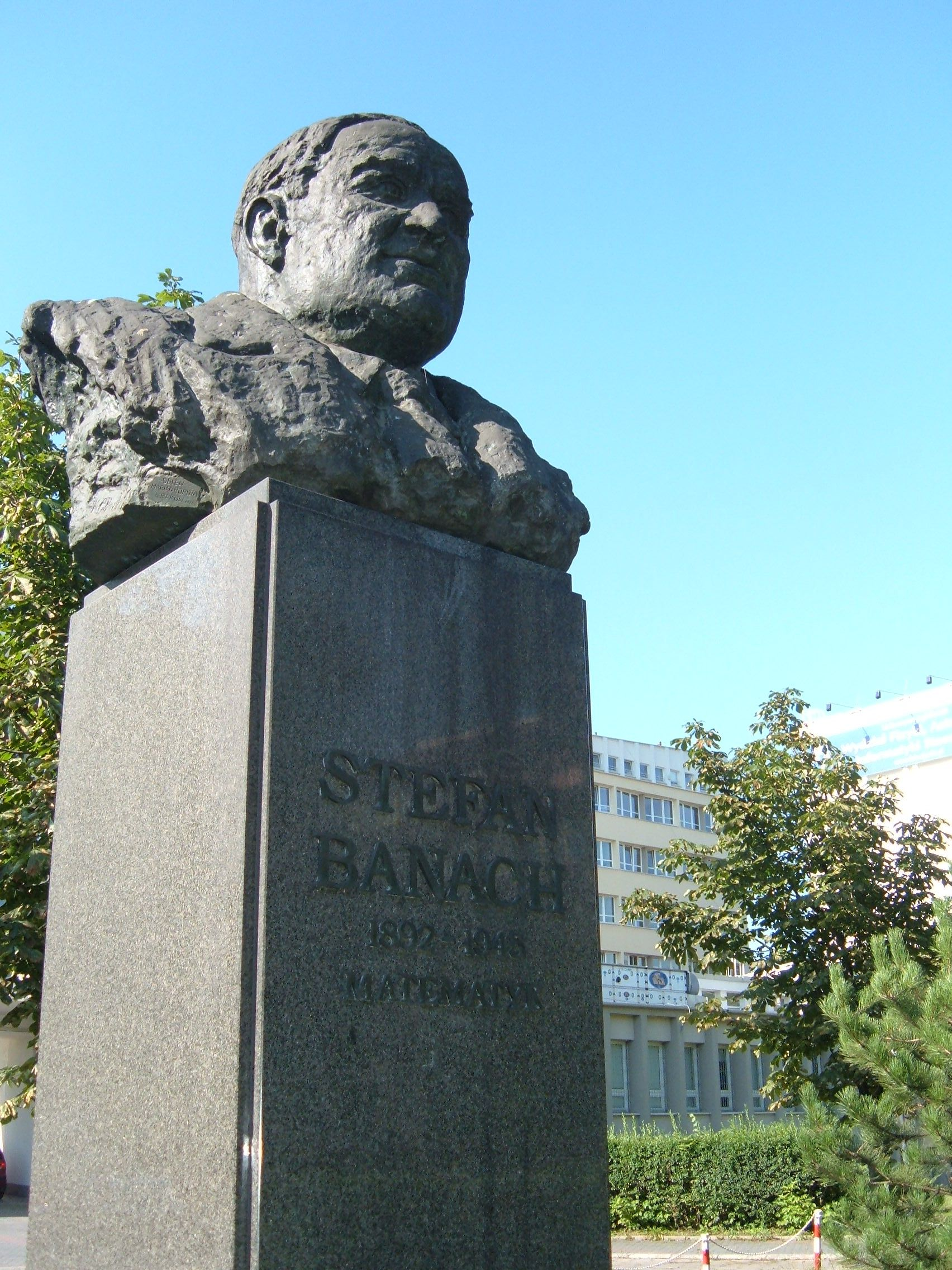 Monument to Stefan Banach, polish mathematician. Wladyslaw Reymont Street, Cracow, Poland.